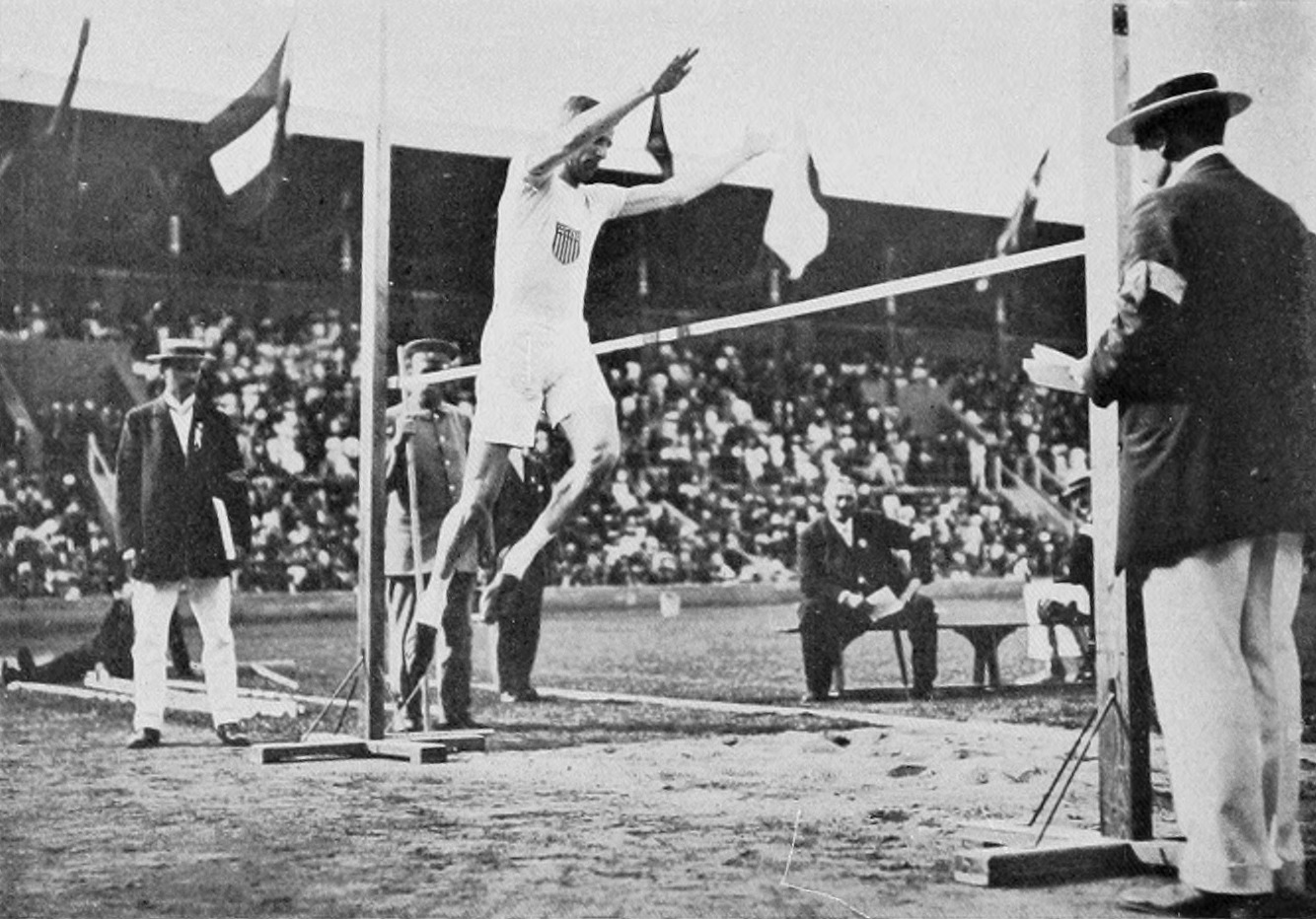 Platt Adams during the standing high jump competition at the 1912 Summer Olympics.